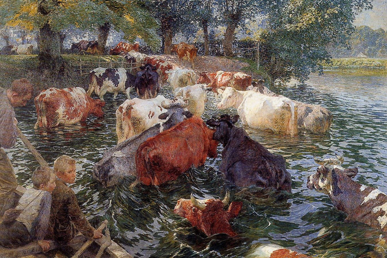 On shallower other parts of the Lys river, the cows could cross on foot, on fords, as well as horses and carts and locally or sometimes some pedestrians. Here Lys is too deep, the animals are accompanied by a boat. Today, the banks with concrete or sheet pile prevent such crossings, and are channeled parts of the river a fragmentation factor more important than it 's once was.